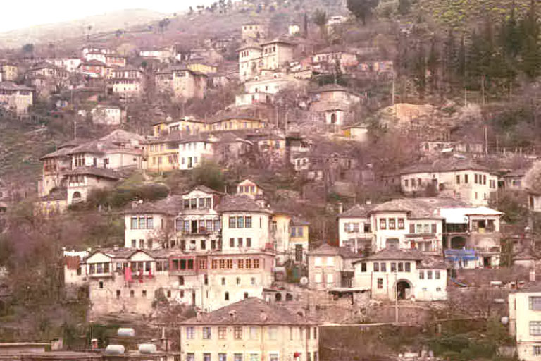 Traditional houses in Gjirokaster, Albania, photographed by Andy Carvin in March 2001.